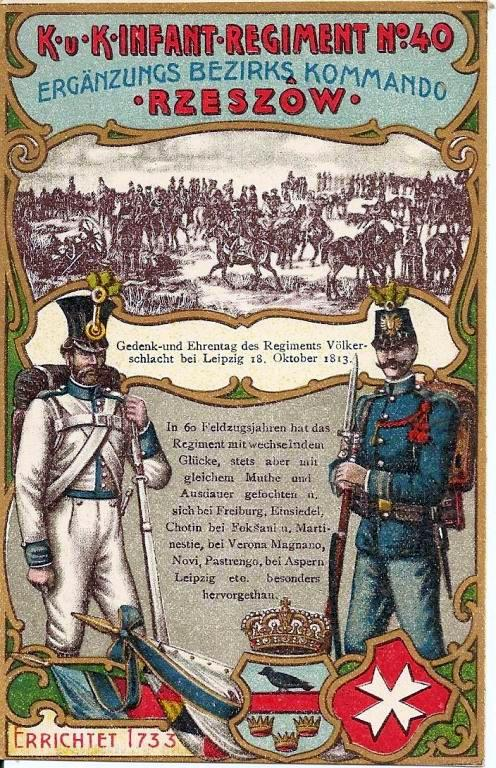 Galician Infantry Regiment Nr. 40 (1915-1918)